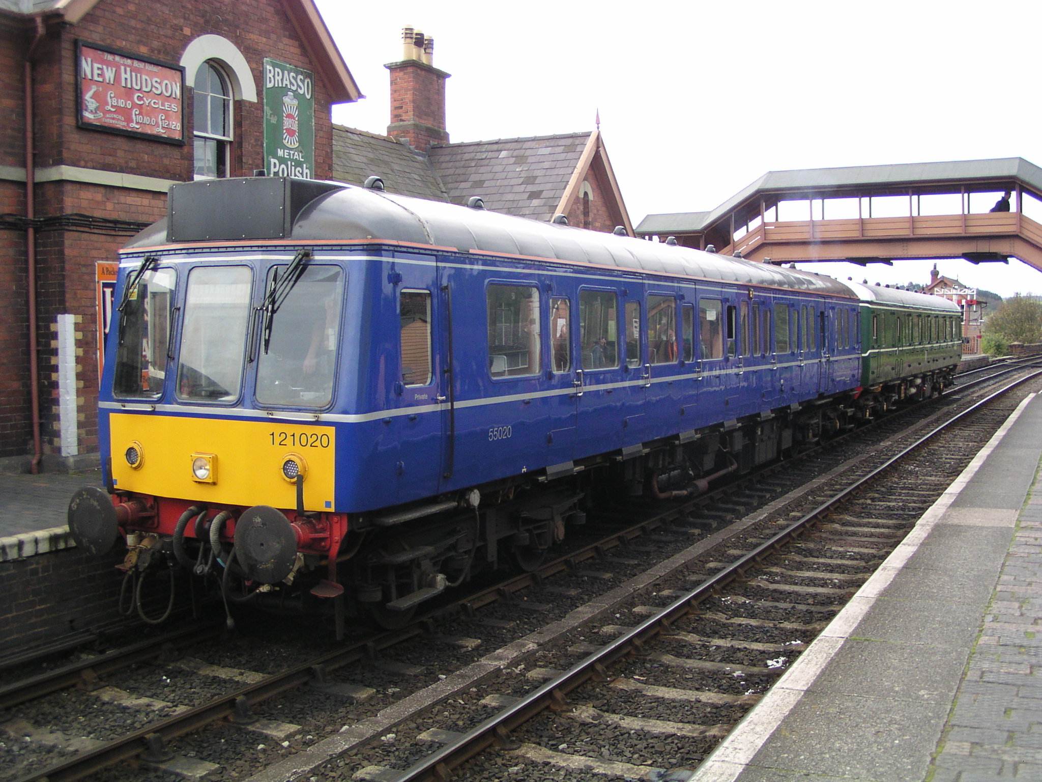 British Rail class 121 "Bubble Car" no. 121020, at Bewdley on the Severn Valley Railway, whilst taking part in the Railcar 50 event. This unit is the last heritage unit operated in normal traffic, and is used on Chiltern Railways' Aylesbury to Princes Risborough shuttle services.